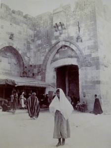 Jaffa Gate, Jerusalem, 1891